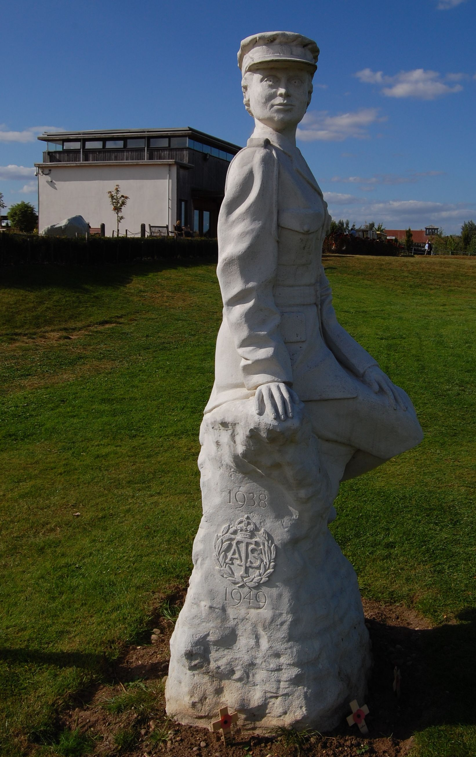 Auxiliary Territorial Service war memorial, now relocated to the National Memorial Arboretum, Alrewas, Staffordshire, England.